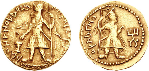 Coin of Kanisha I, king of the kings, Kushana empire, showing Verethragna in the back